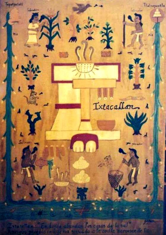 It is the interpretation of the glyph of ancient territory of Ixtacala painted in oil on canvas by archaeologist Gilberto Perez Rico. Painting was donated to the Library of Los Reyes Ixtacala.